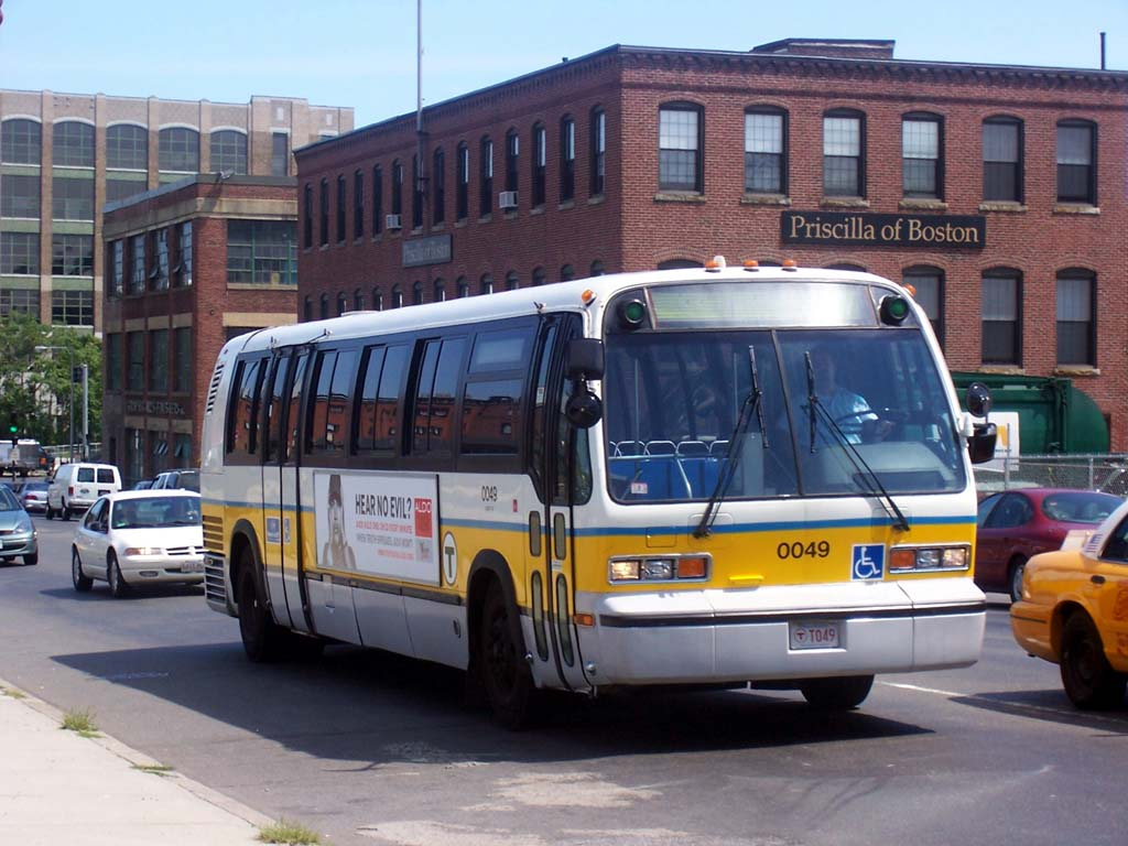 MBTA TMC RTS #0049 at Sullivan Station. This bus has since been scrapped.